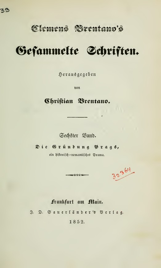 Title page